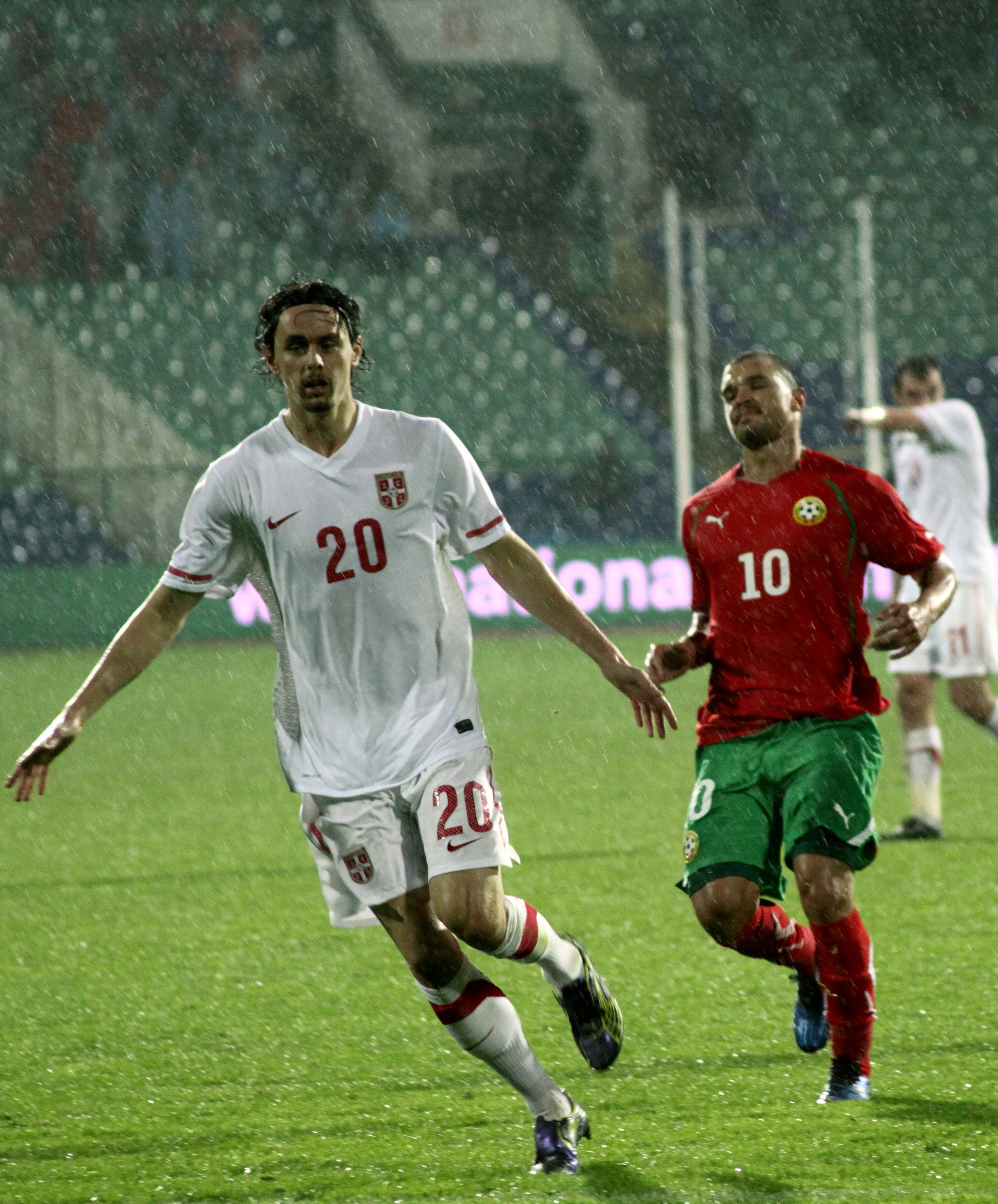 Neven Subotić (Serbian Cyrillic: Heвeн Cубoтић) (born 10 December 1988) is a Serbia football defender, who plays for Borussia Dortmund. Subotić made his first-team debut at the very end of the 2006–07 season as Mainz were relegated from the Bundesliga. In the 2. Bundesliga the following year, he seized a starting role and quickly received high marks as one of the best young defenders in the league.